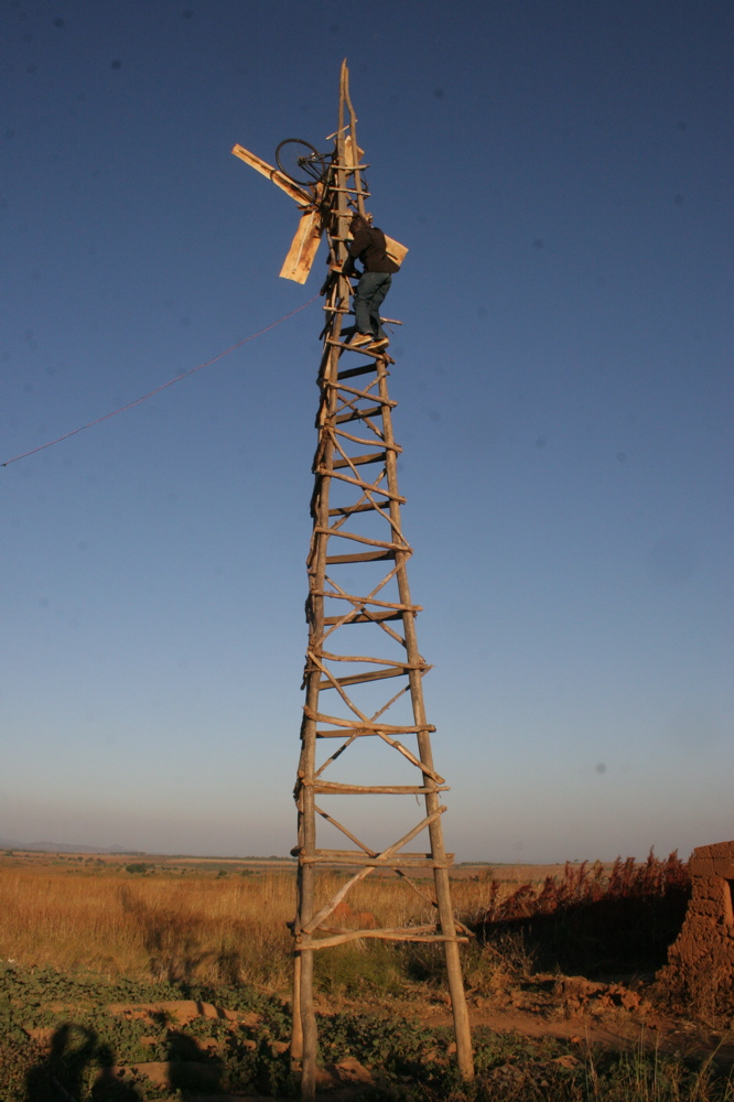 This is an outstanding shot, by Tom Rielly of TED. He visited with William Kamkwamba after the TEDGlobal conference in Tanzania. Find out more on William's Windmill blog in Malawi.